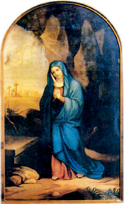 "Sad Madonna", painted by Anna Maria Marovich, is considered to be her most successful piece